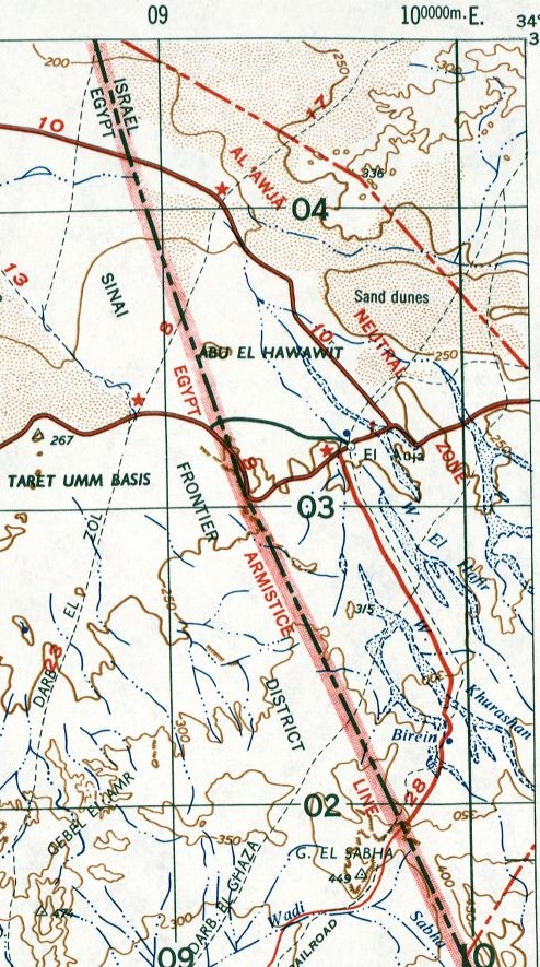 Area of former Al 'Awja Neutral Zone